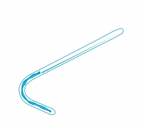 Metoidioplasty ZSI implant